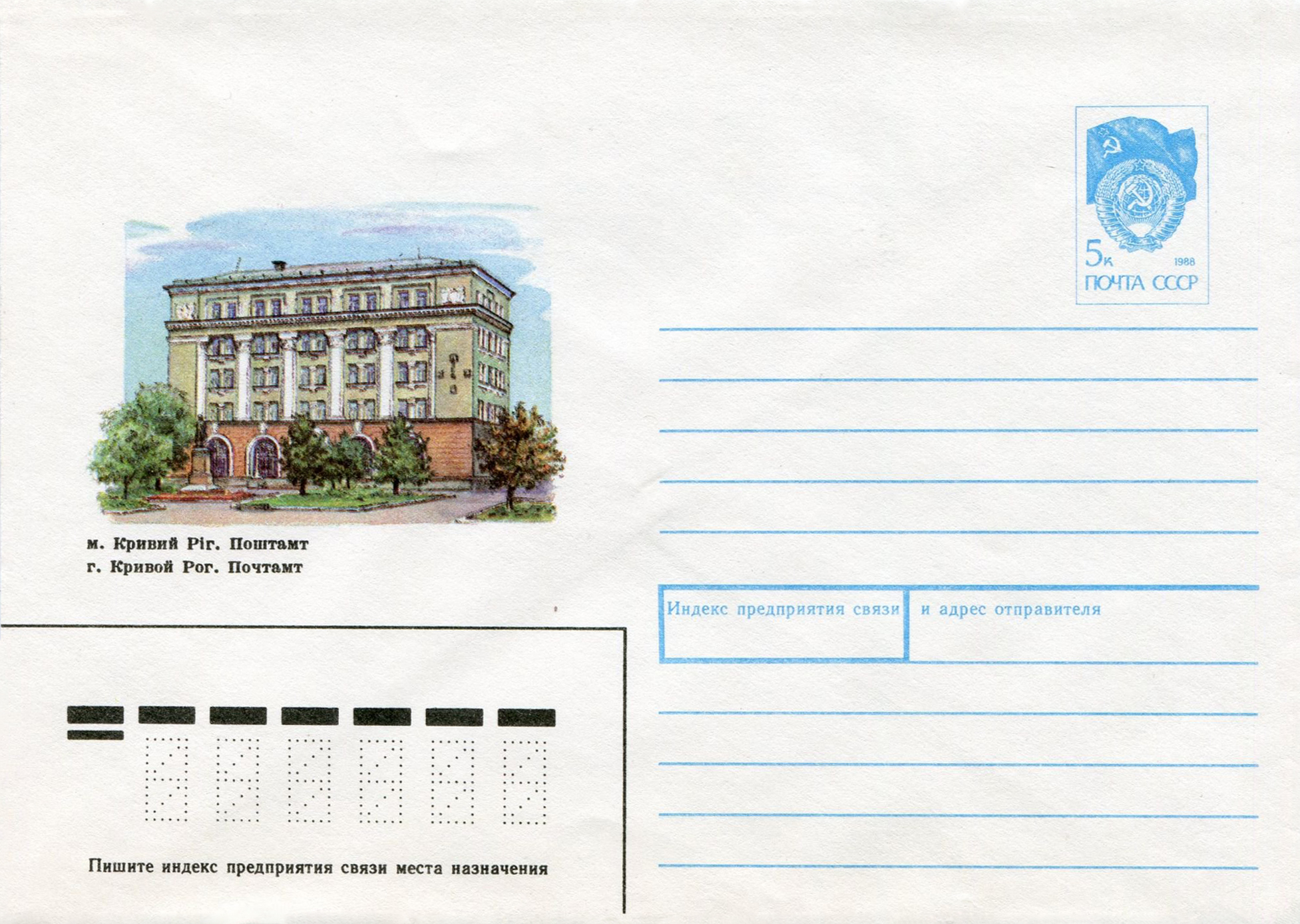 Krivoi Rog Main Post Office1980 Soviet Cover